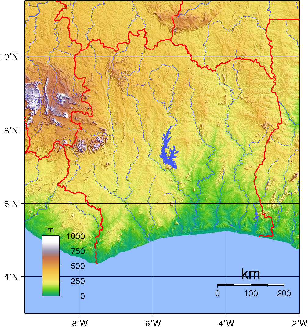 Topographic map of Ivory Coast. Created with GMT fro SRTM data.